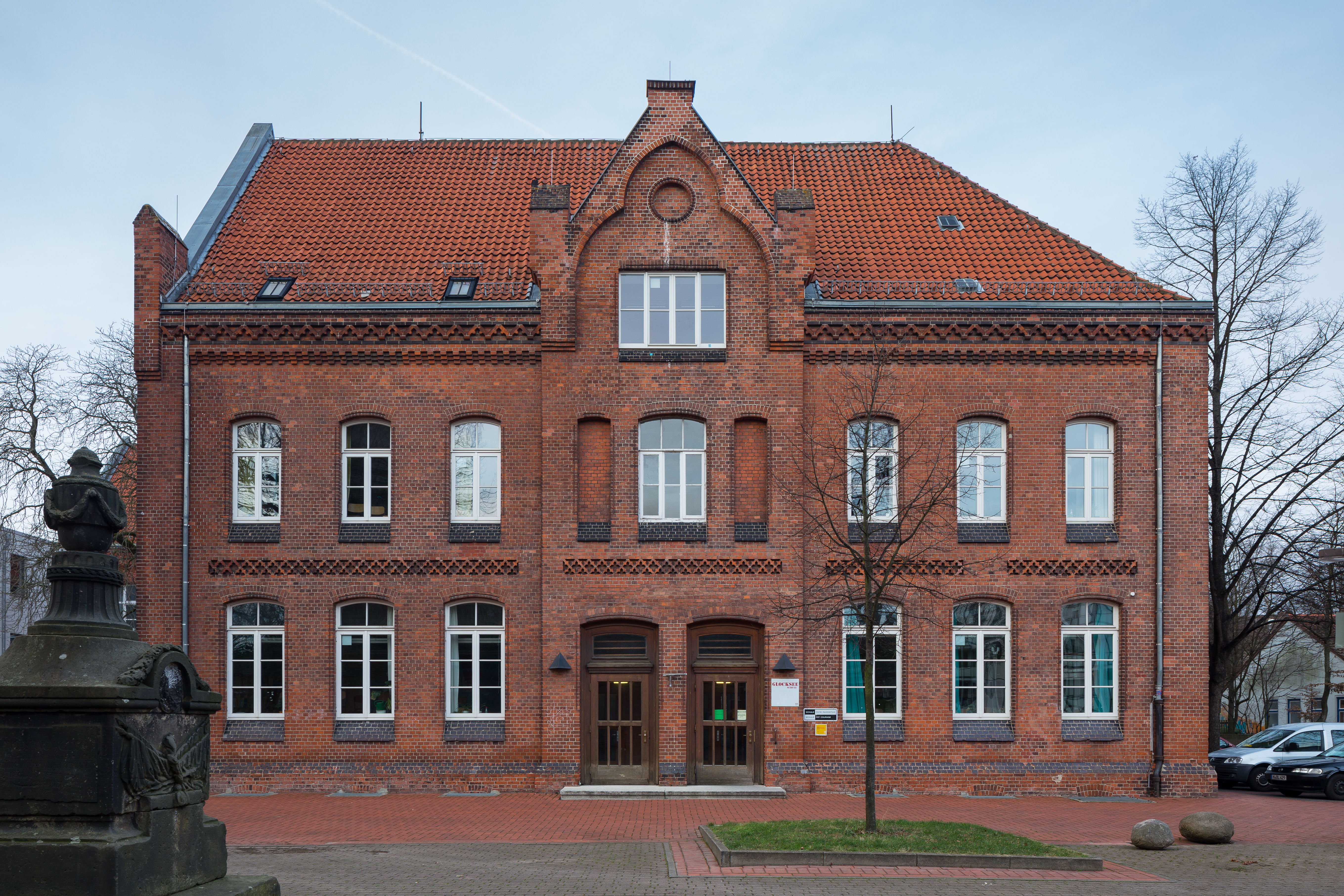 Building of Glockseeschule school located at the intersection of Am Lindenhofe and Brueckstrasse in Doehren district of Hannover, Germany.